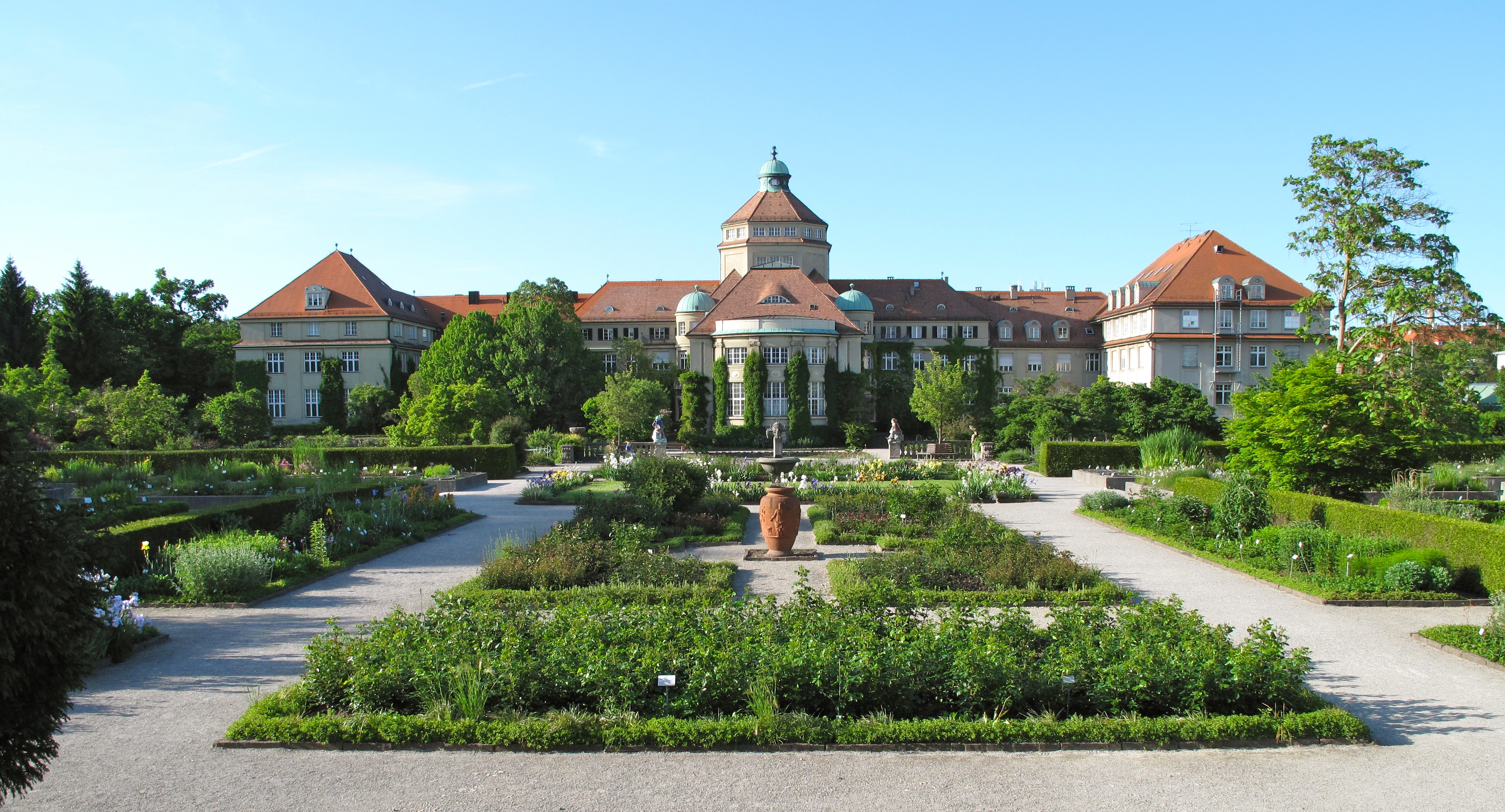 Botanic Garden Munich in the district Neuhausen-Nymphenburg (main building of the university)